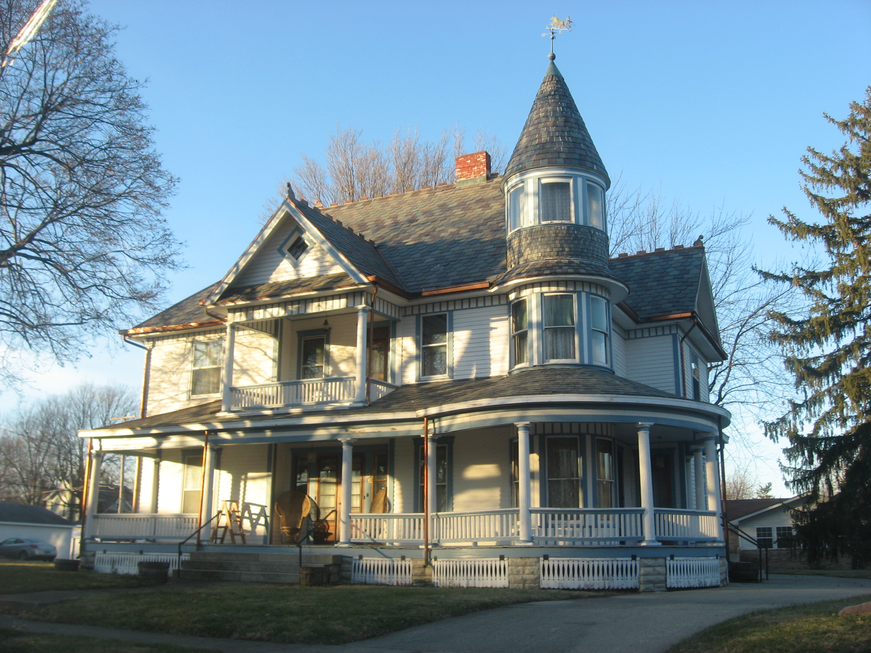 Front of the John W. Hedrick House, located at 506 High Street in Middletown, Indiana, United States. Built in 1899, it is listed on the National Register of Historic Places.